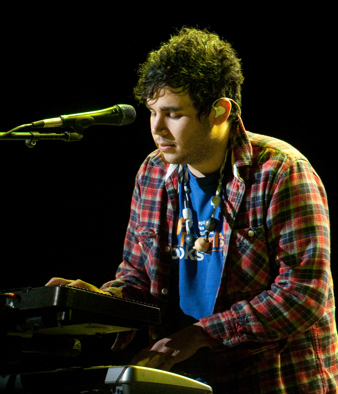 Rostam Batmanglij of the American band Vampire Weekend